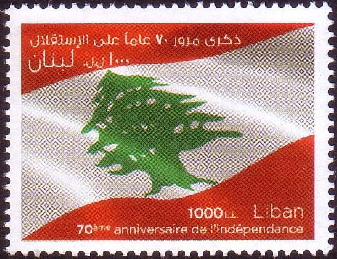 70th anniversary of the Independence